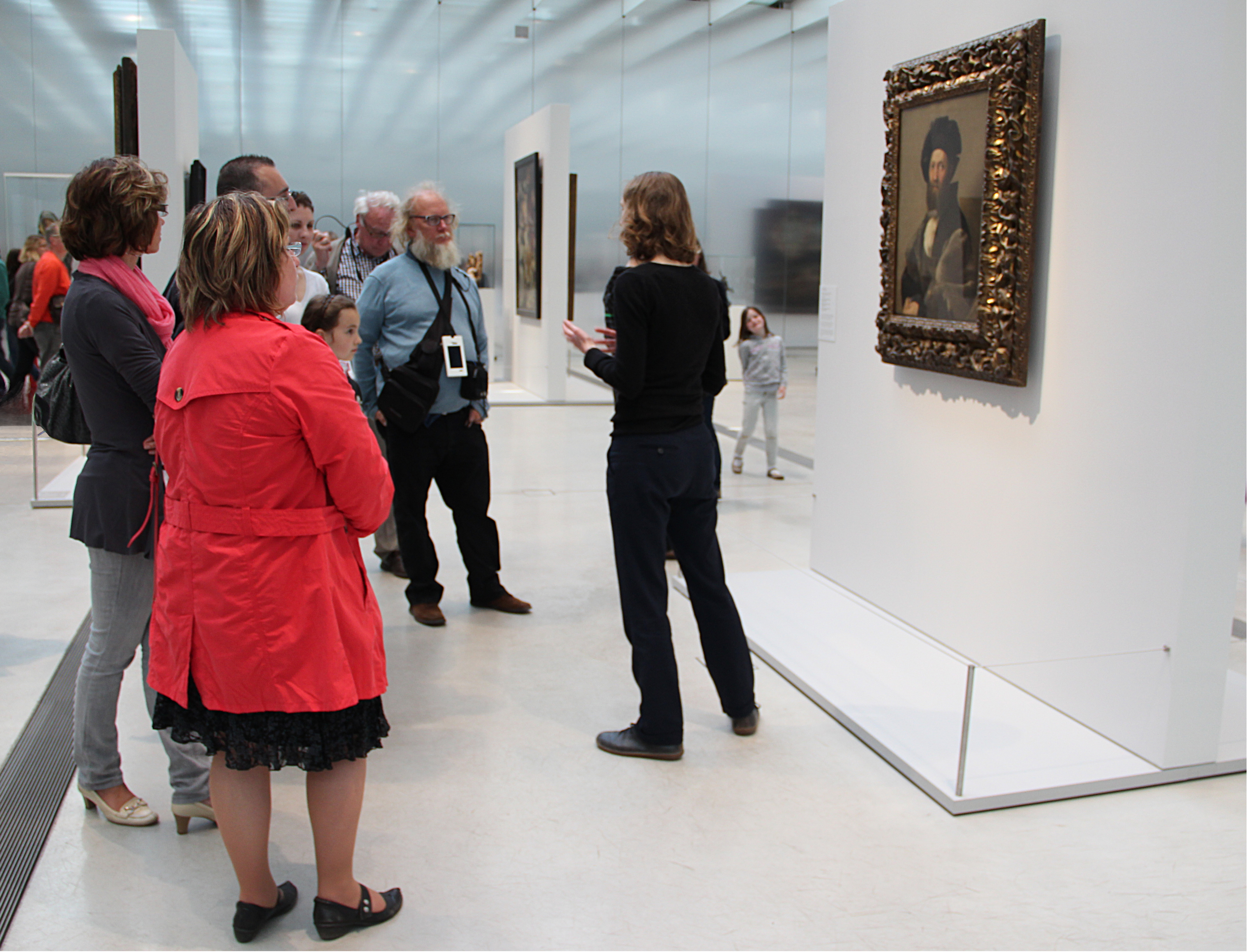 The portrait of Baldassare Castiglione commented on by the guide. - Oil on canvas made ​​by Raphael to 1514-1515. - Work belonging to the Musée du Louvre of Paris (INV 611), photographed in the "Galerie du Temps" (Gallery of Time) of the Louvre-Lens where it is exposed temporarily.